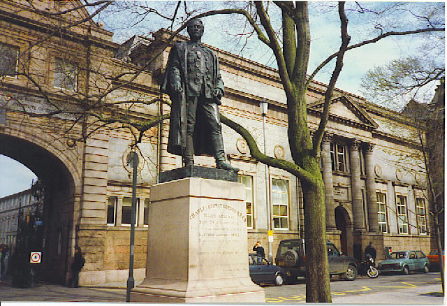 Gordon's Statue, Schoolhill. The statue to "Gordon of Khartoum", outside Robert Gordon's School. The building on the right is now part of Robert Gordon's University.